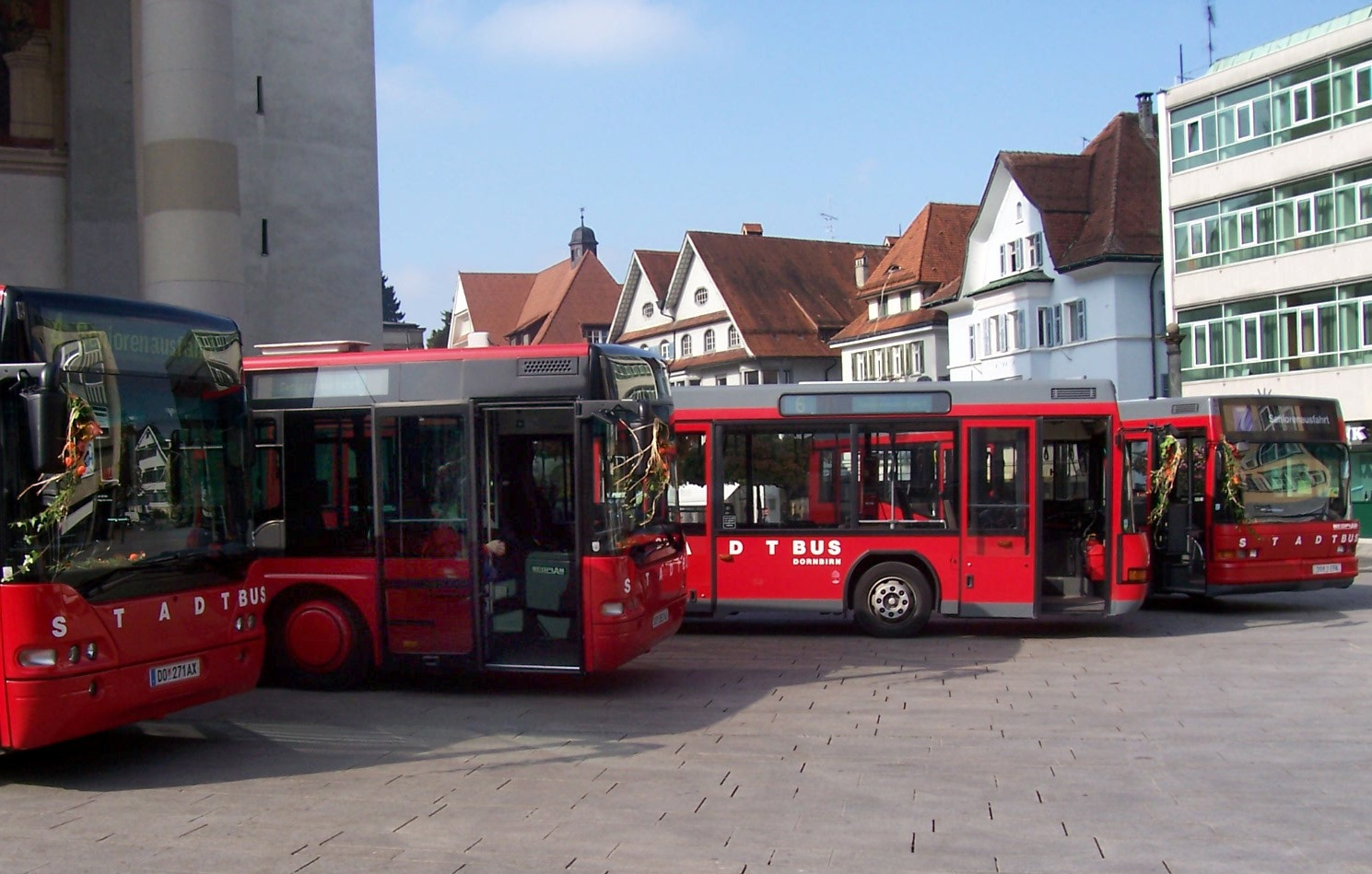 4 buses of the corporation bus of Dornbirn. / 4 Busse der Stadtbusse Dornbirns.